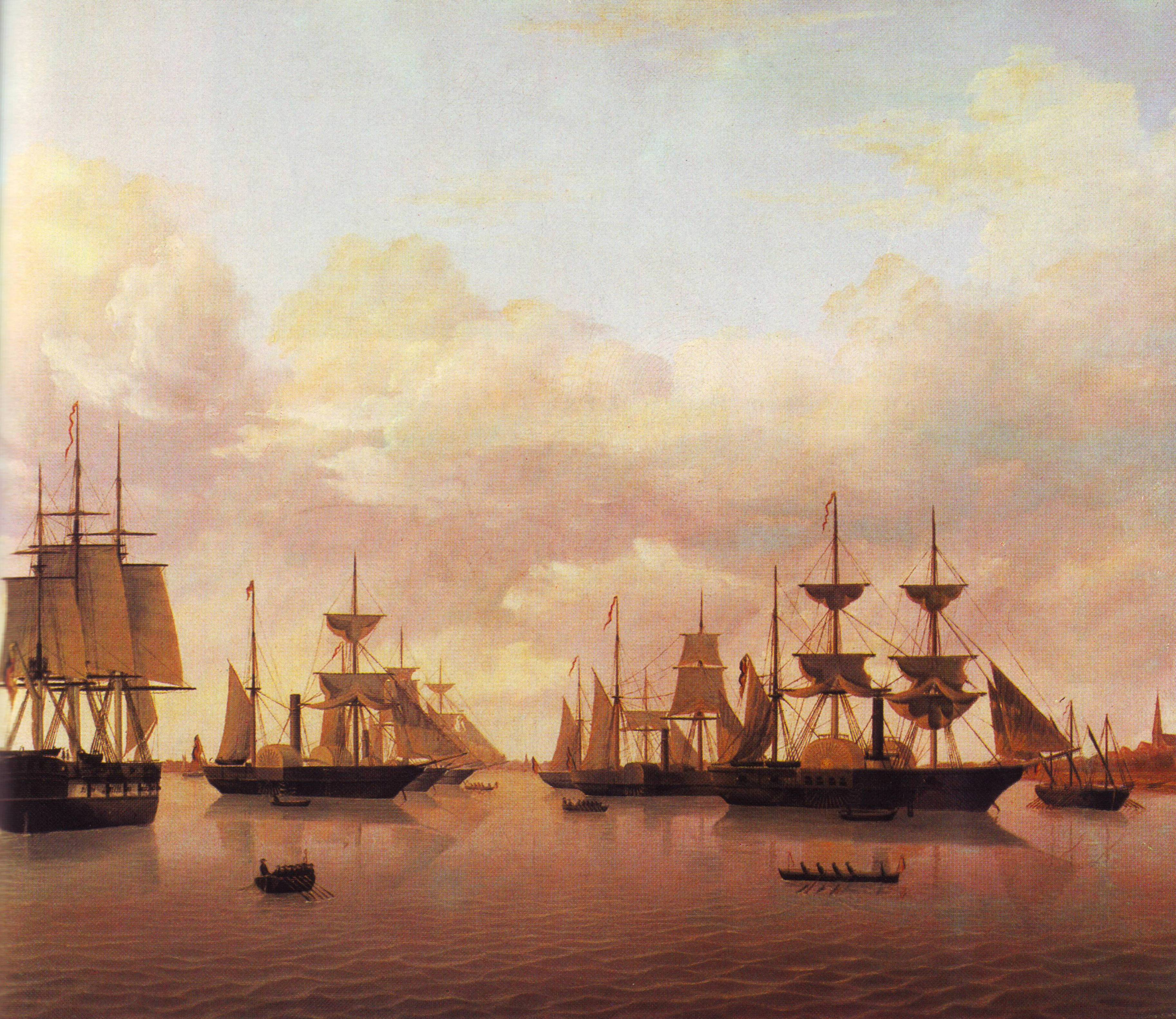 Imperial Fleet. Deutschland, Hamburg, Bremen, Lübeck, Barbarossa, Ernst August, Hansa.